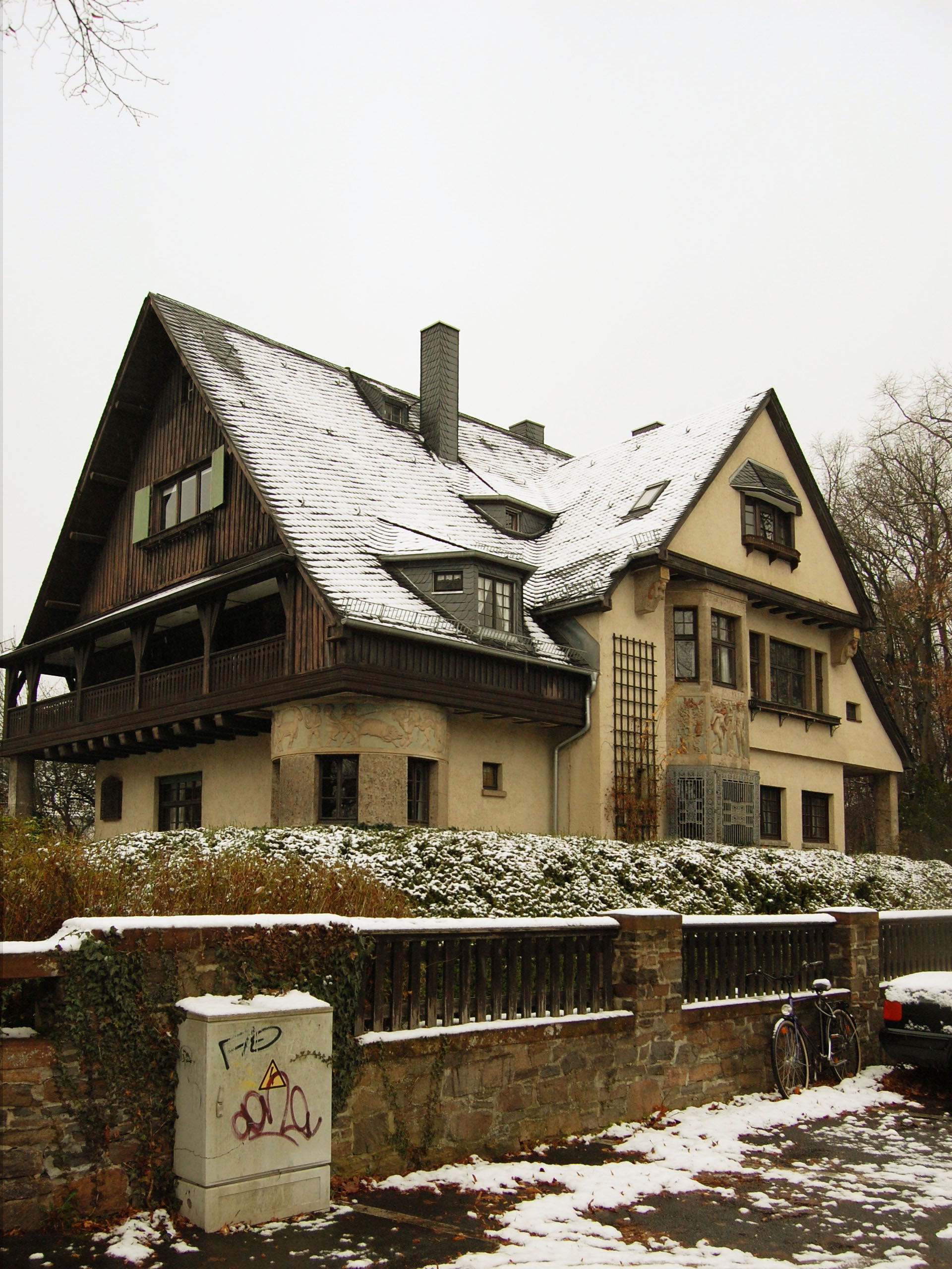 Gentil-Wohnhaus